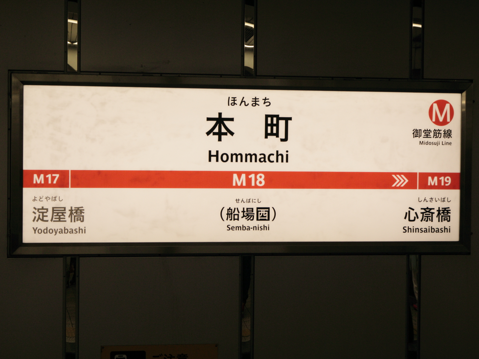 Running in board from Hommachi Station (Midōsuji Line. New design).